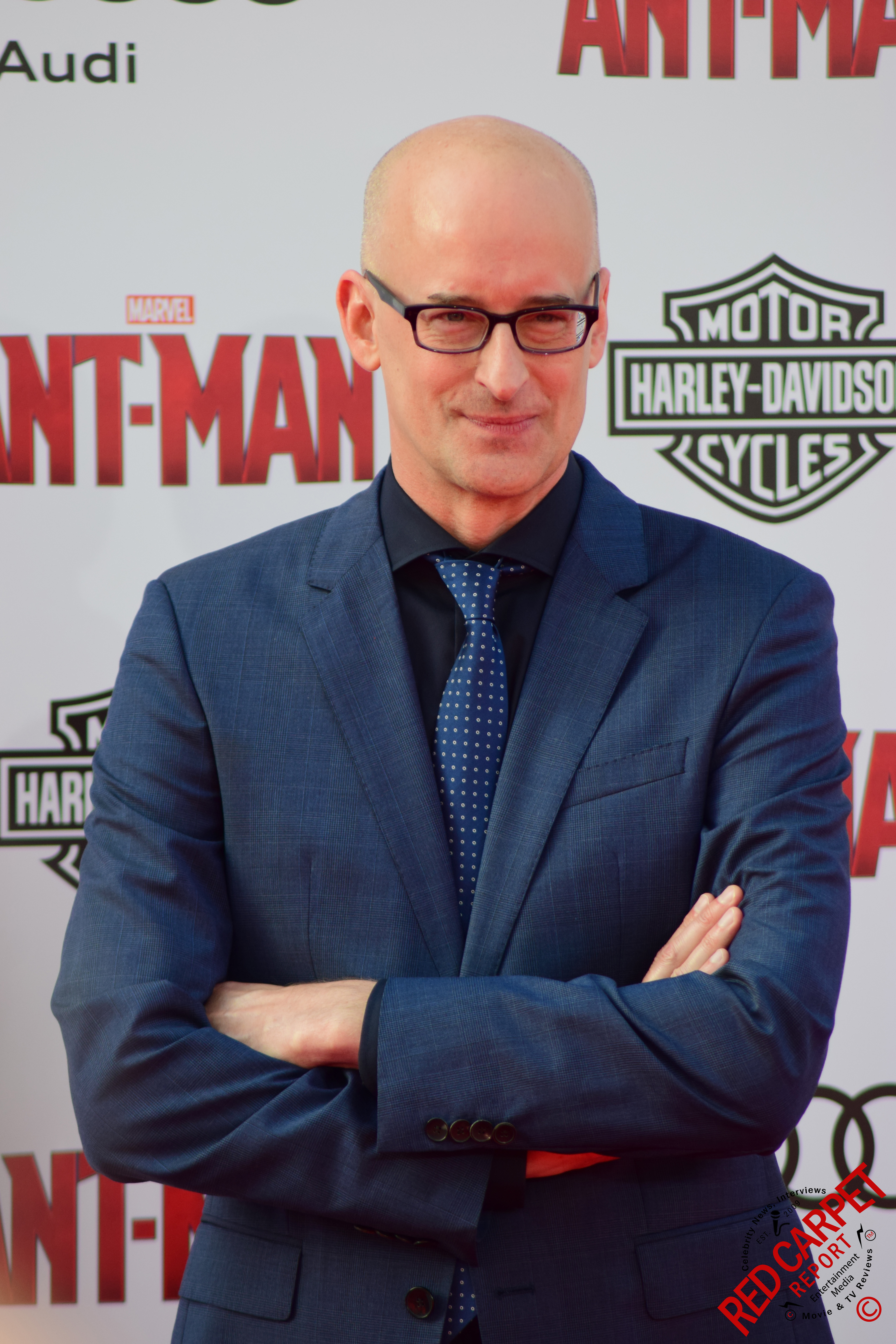 Mingle Media TV and our Red Carpet Report team were on hand for Marvel’s "Ant-Man” World Premiere at the Dolby Theatre in Hollywood. Get the Story from the Red Carpet Report Team, follow us on Twitter and Facebook at: About Ant-Man The next evolution of the Marvel Cinematic Universe brings a founding member of The Avengers to the big screen for the first time with Marvel Studios’ “Ant-Man.” Armed with the astonishing ability to shrink in scale but increase in strength, master thief Scott Lang must embrace his inner-hero and help his mentor, Dr. Hank Pym, protect the secret behind his spectacular Ant-Man suit from a new generation of towering threats. Against seemingly insurmountable obstacles, Pym and Lang must plan and pull off a heist that will save the world. Marvel’s “Ant-Man” stars Paul Rudd as Scott Lang aka Ant-Man, Evangeline Lilly as Hope Van Dyne, Corey Stoll as Darren Cross aka Yellowjacket, Bobby Cannavale as Paxton, Michael Peña as Luis, Judy Greer as Maggie, Tip “Ti” Harris as Dave, David Dastmalchian as Kurt, Wood Harris as Gale, Jordi Mollà as Castillo and Michael Douglas as Hank Pym. Follow Marvel on Twitter: Like Marvel on FaceBook: For even more Marvel Comics news follow at Tumblr: Instagram: Google+: Pintrest: For more of Mingle Media TV’s Red Carpet Report coverage, please visit our website and follow us on Twitter and Facebook here